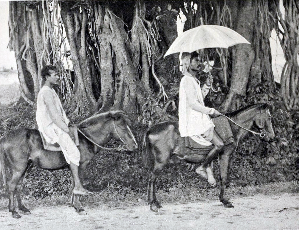 Travelling on the Grand Trunk Road, Riding a native TAT (Pony) 1910